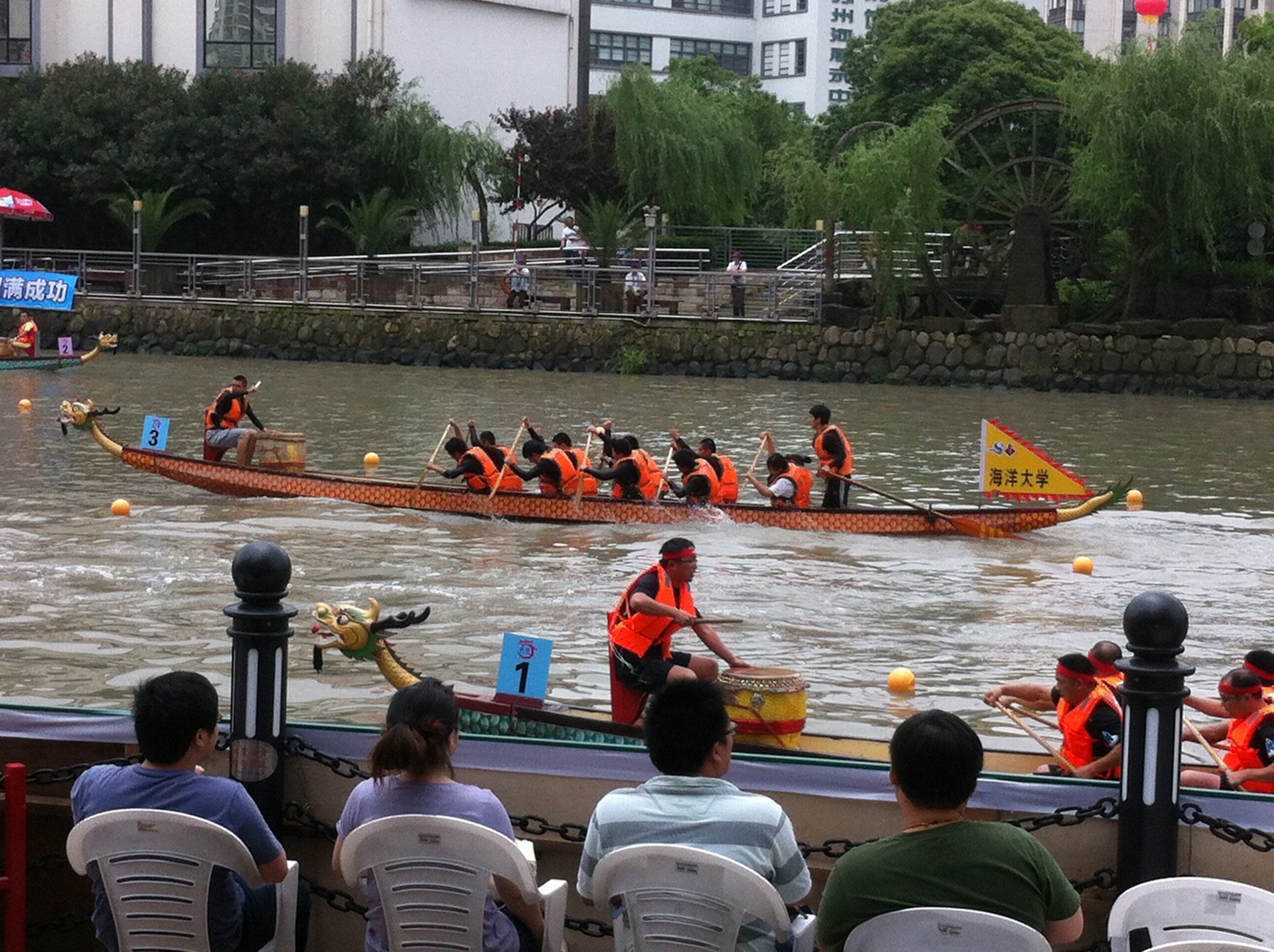 Dragonboat Race in Shanghai, 2013